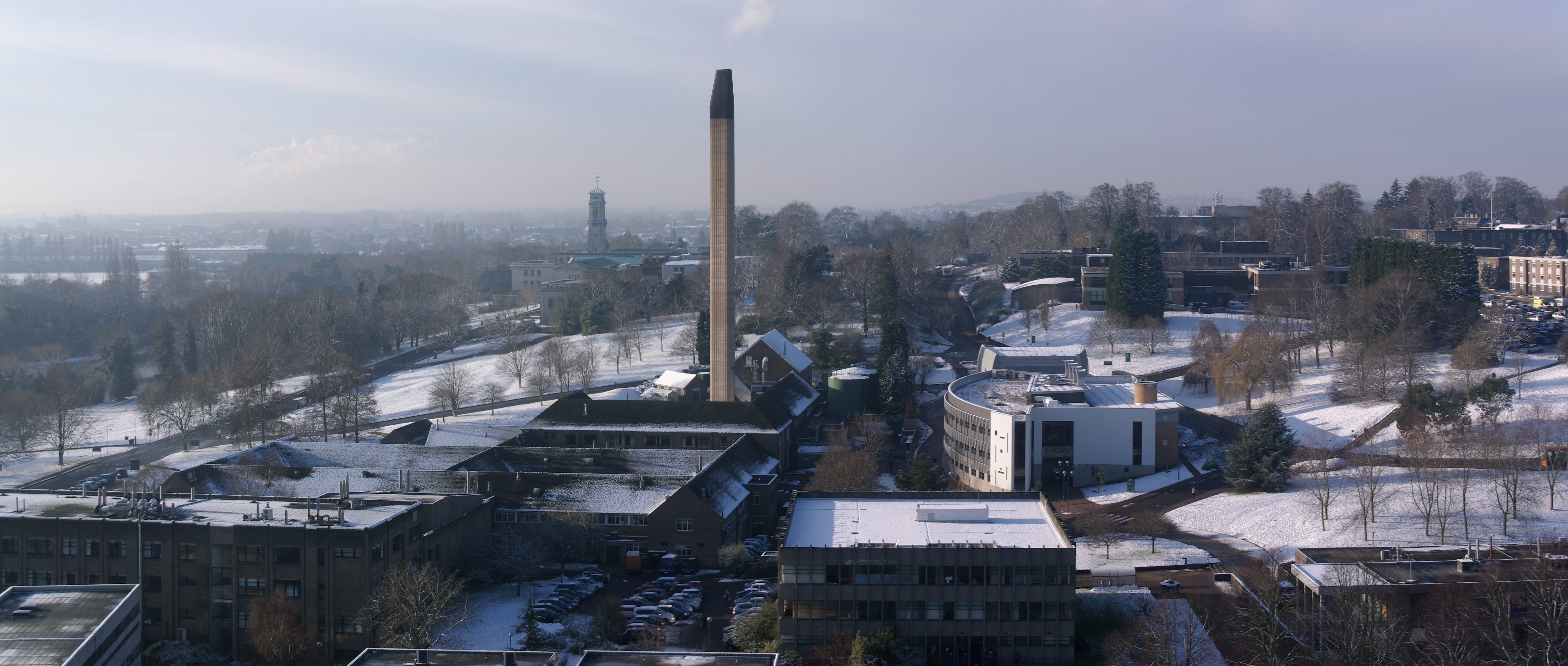 View over a snowy Science City from the top of the Tower Building on the University of Nottingham's University Park campus.